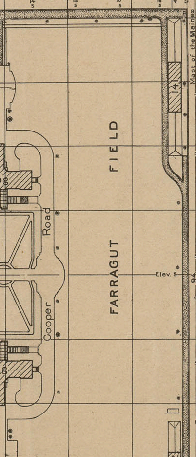 Farragut Field, at the United States Naval Academy. Cropped from 1924 Academy map.